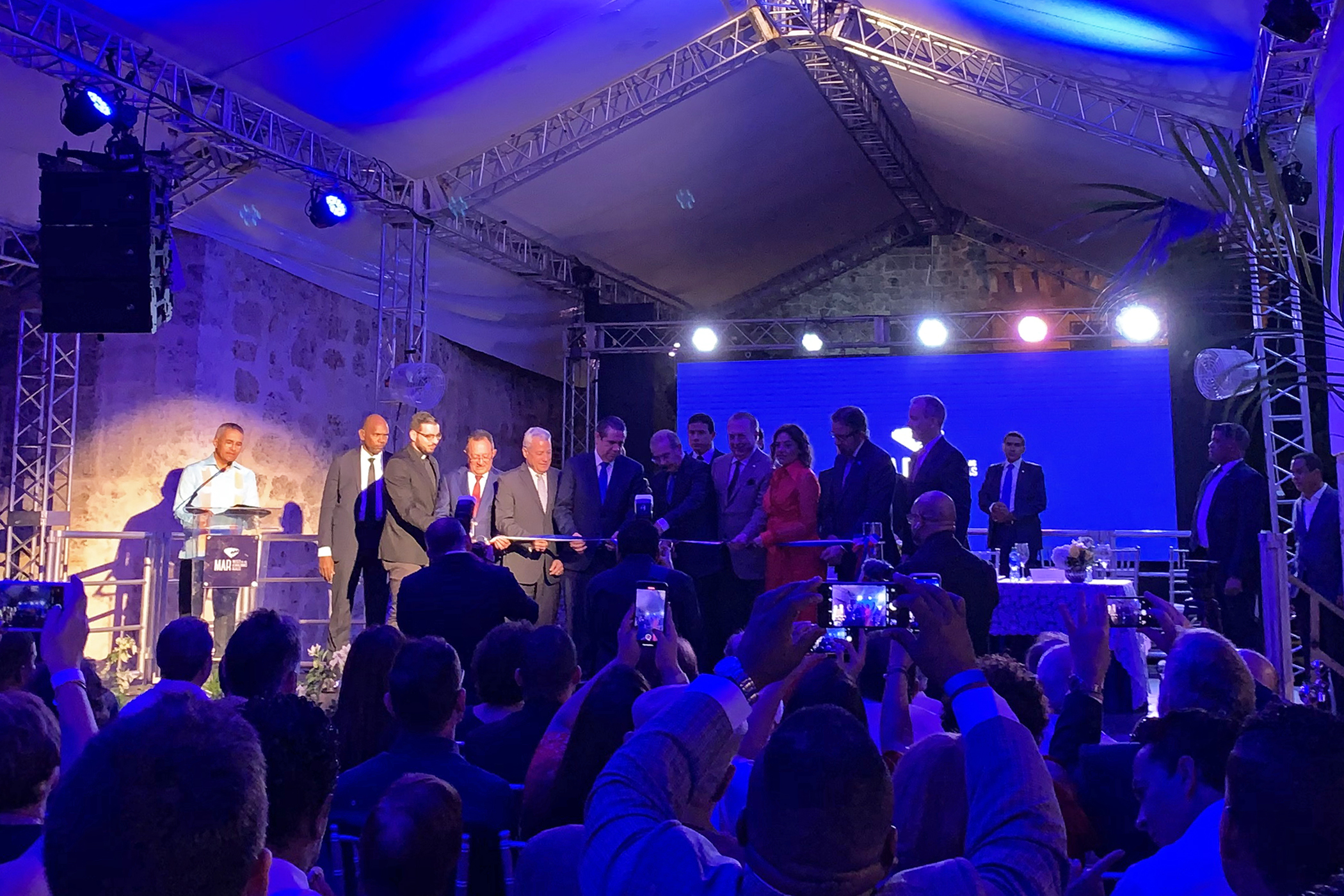 President Danilo Medina cutting the ribbon at the reopening of Museo de las Atarazanas Reales, Ciudad Colonial Santo Domingo, December 12, 2019